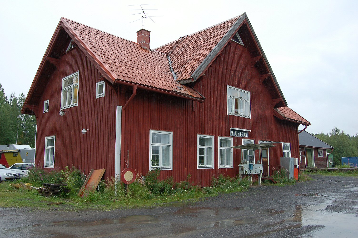 Niemisel railway station on Haparandabanan (Boden—Haparanda) in Sweden.